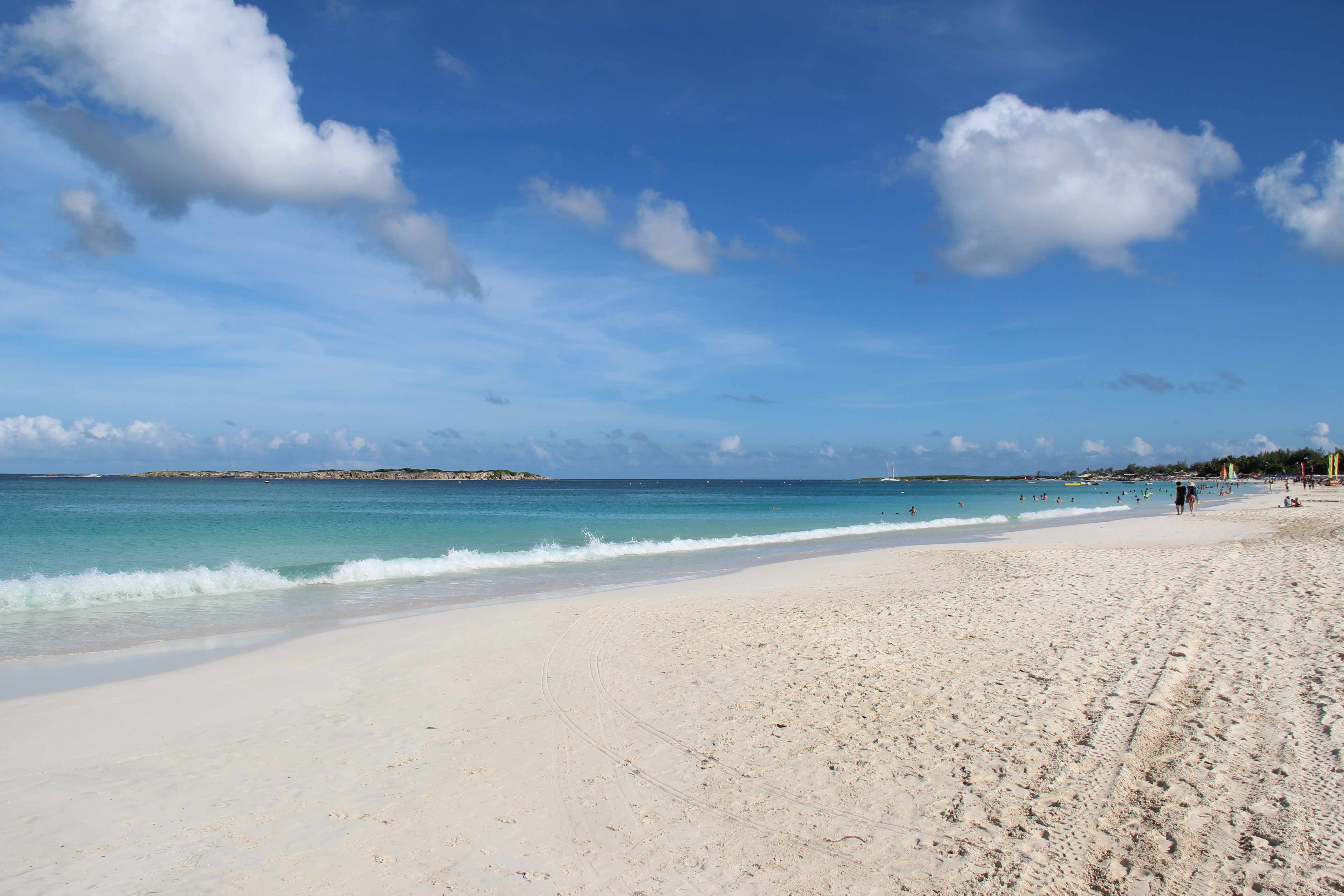 A view of Orient Beach, in the french side of Sint Maarten/Saint Martin island in the Caribbean.